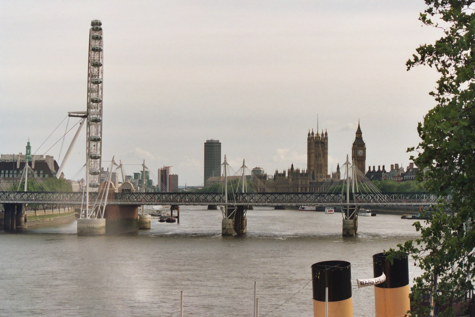 River Thames